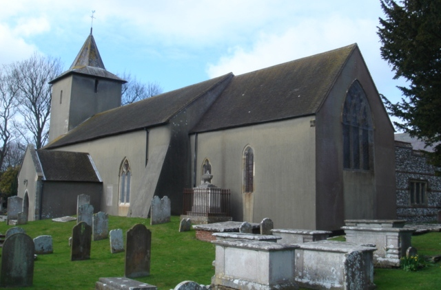 All Saints Church, Patcham, Brighton, England.